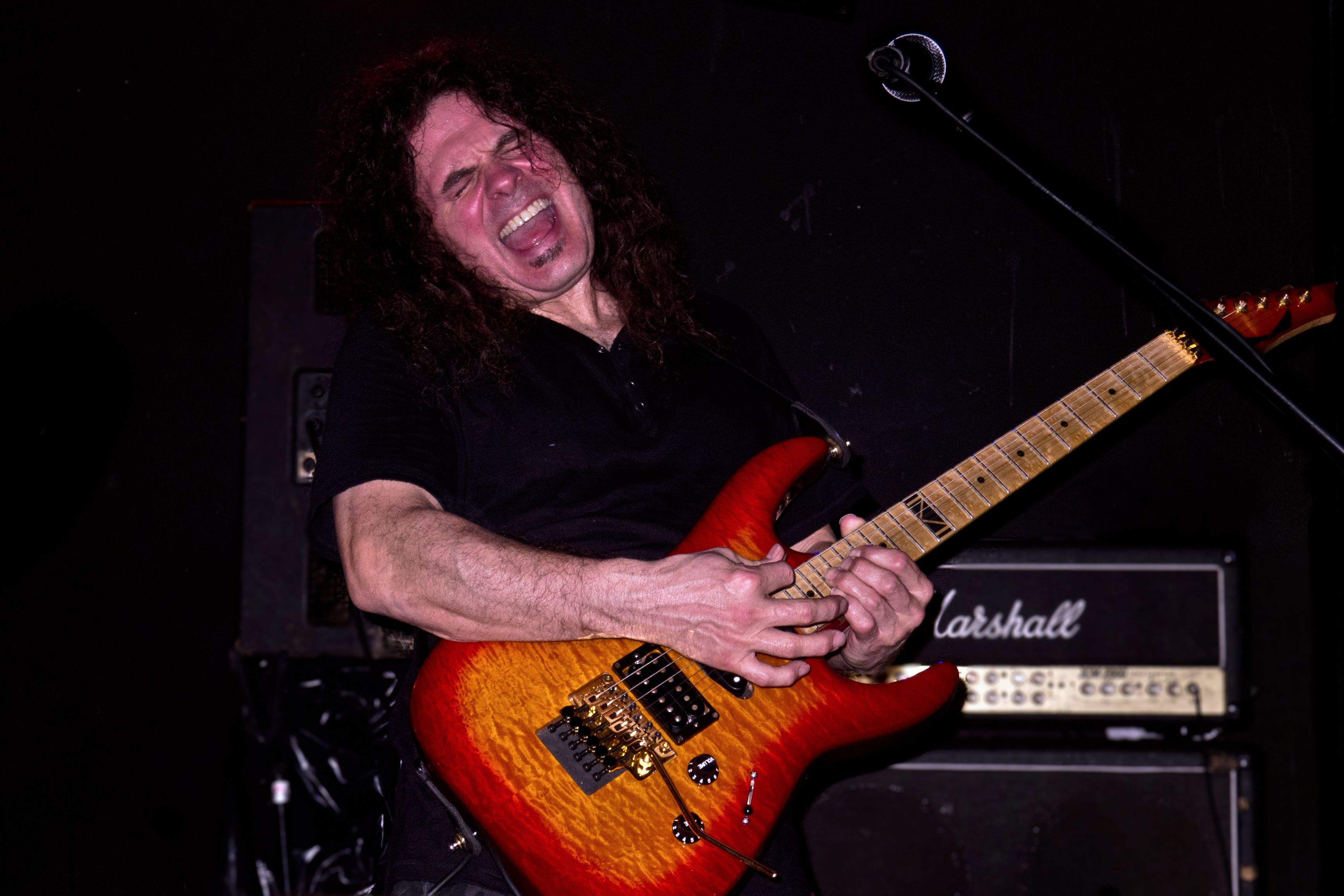 Vinnie Moore at Ritmo&Compás, Madrid (2011)